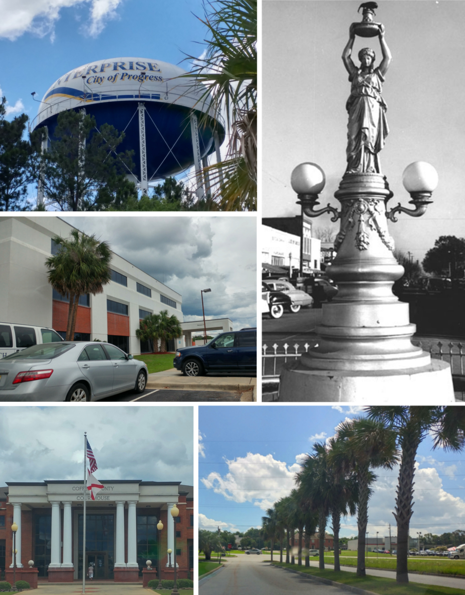 The head image for the Enterprise, Alabama Wikipedia page.